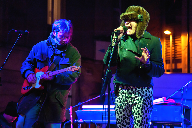 Koncert Jinxa